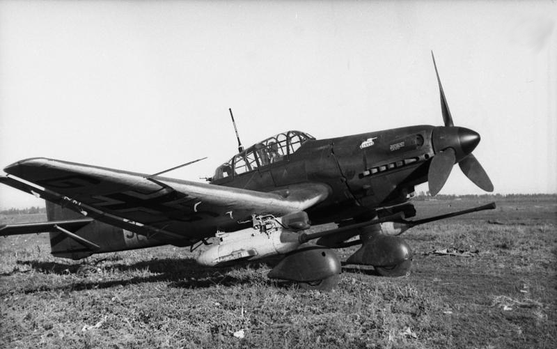 Title: Russland, Flugzeug Junkers Ju 87 Extra information: Sowjetunion.- Flugzeug Junkers Ju 87 G "Stuka" mit 3,7-cm-Kanonen FlaK 18 ("Kanonenvogel") auf einem Feldflugplatz; PK Lw zbV Factual corrections and alternative descriptions are encouraged separately from the original description. Additionally errors can be reported at this page to inform the Bundesarchiv. Original historic description